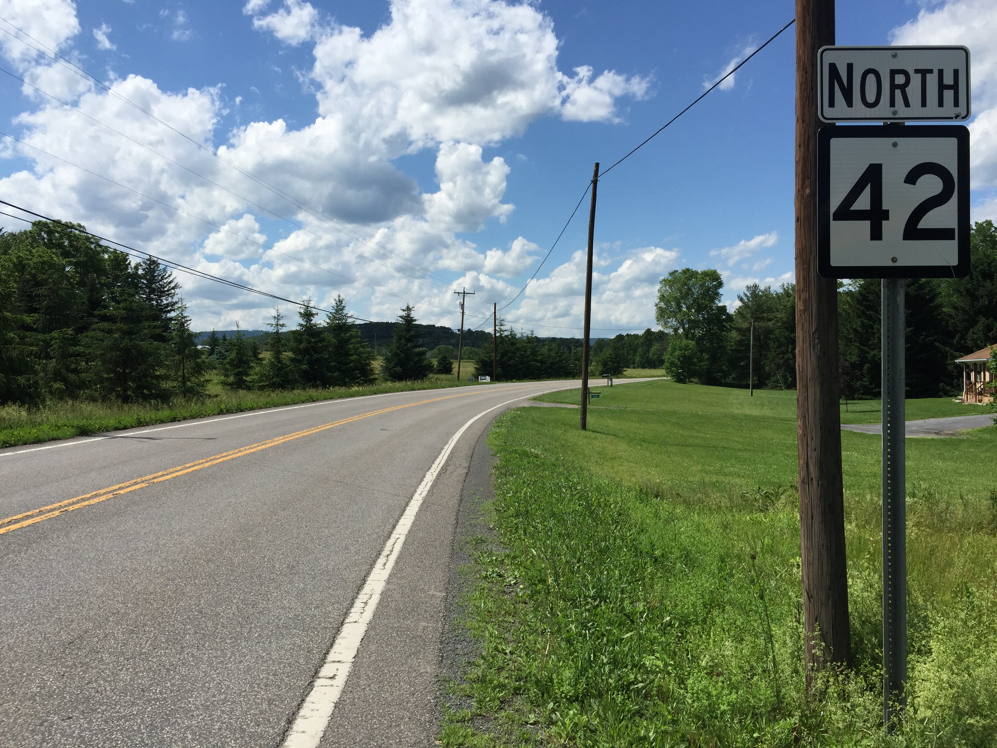 View north along West Virginia State Route 42 (Lunice Creek Highway) at Arthur Road in Arthur, Grant County, West Virginia